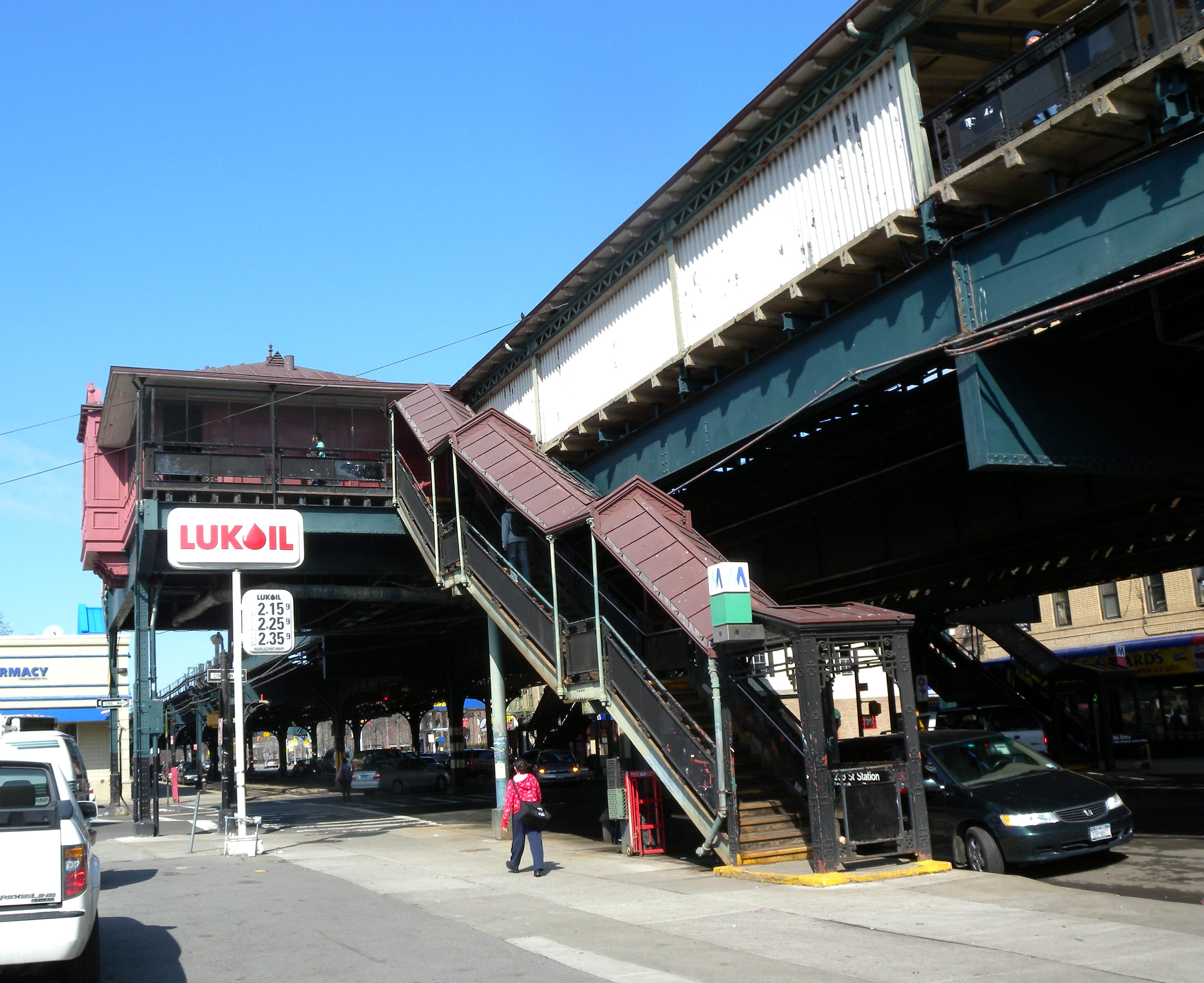 Looking northeast at the 238th Street station of the IRT Broadway – Seventh Avenue Line on a sunny midday.